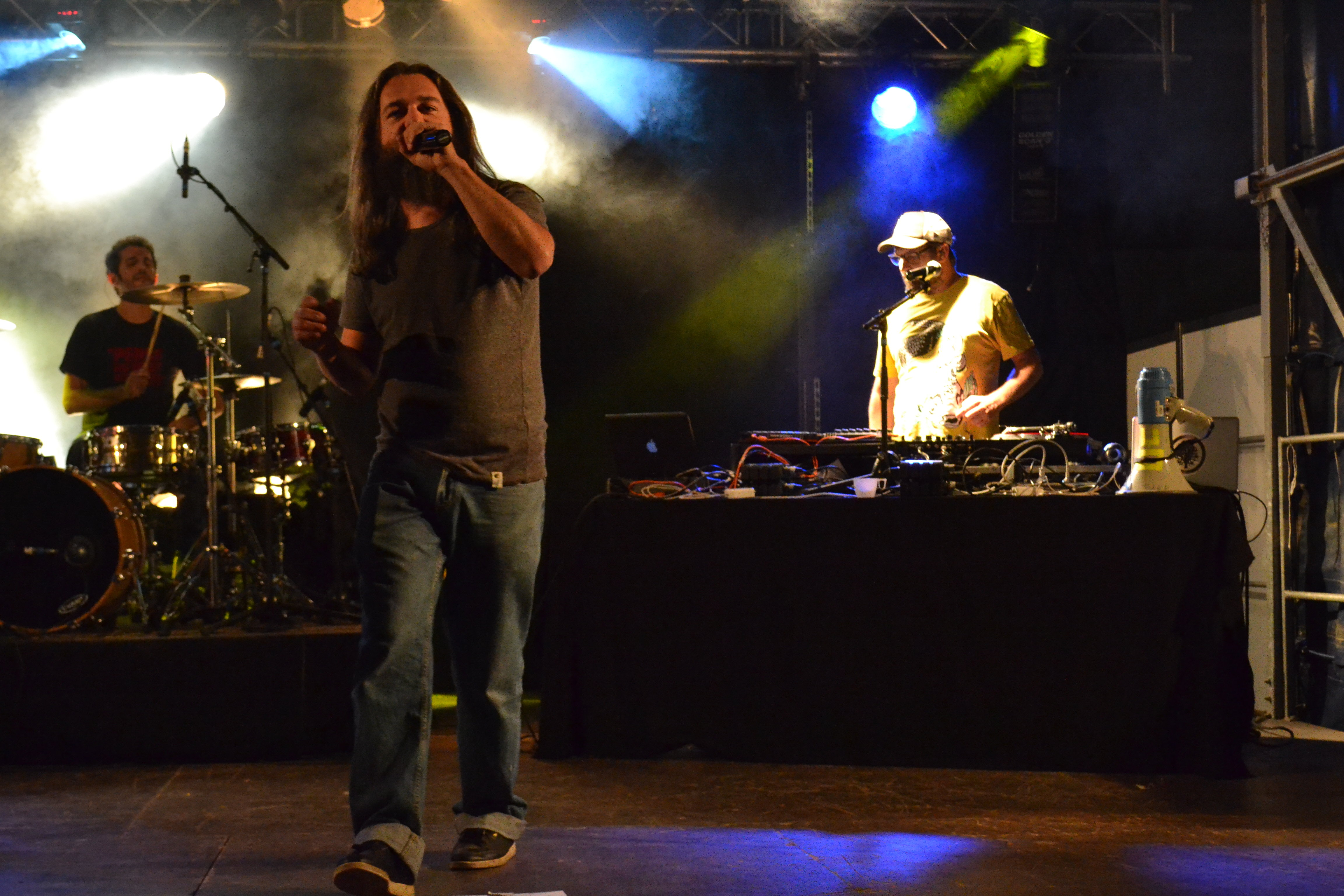 Mauresca Fracas Dub concert during Saint-Girons Nuit du Trad in 2018.